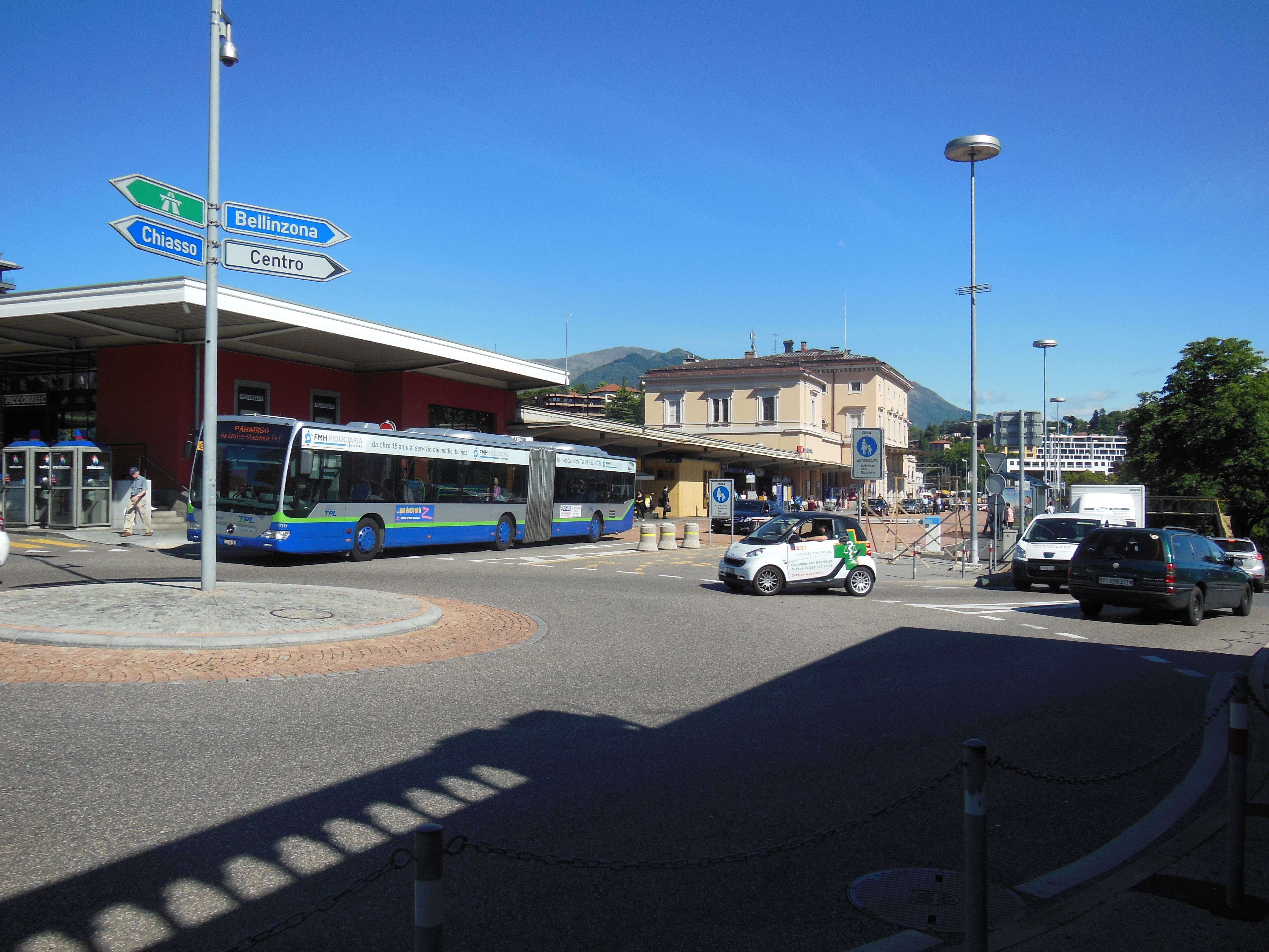 The forecourt of Lugano railway station, with an articulated bus of the Trasporti Pubblici Luganesi at its stop there. For more information, see the Wikipedia article Lugano railway station.